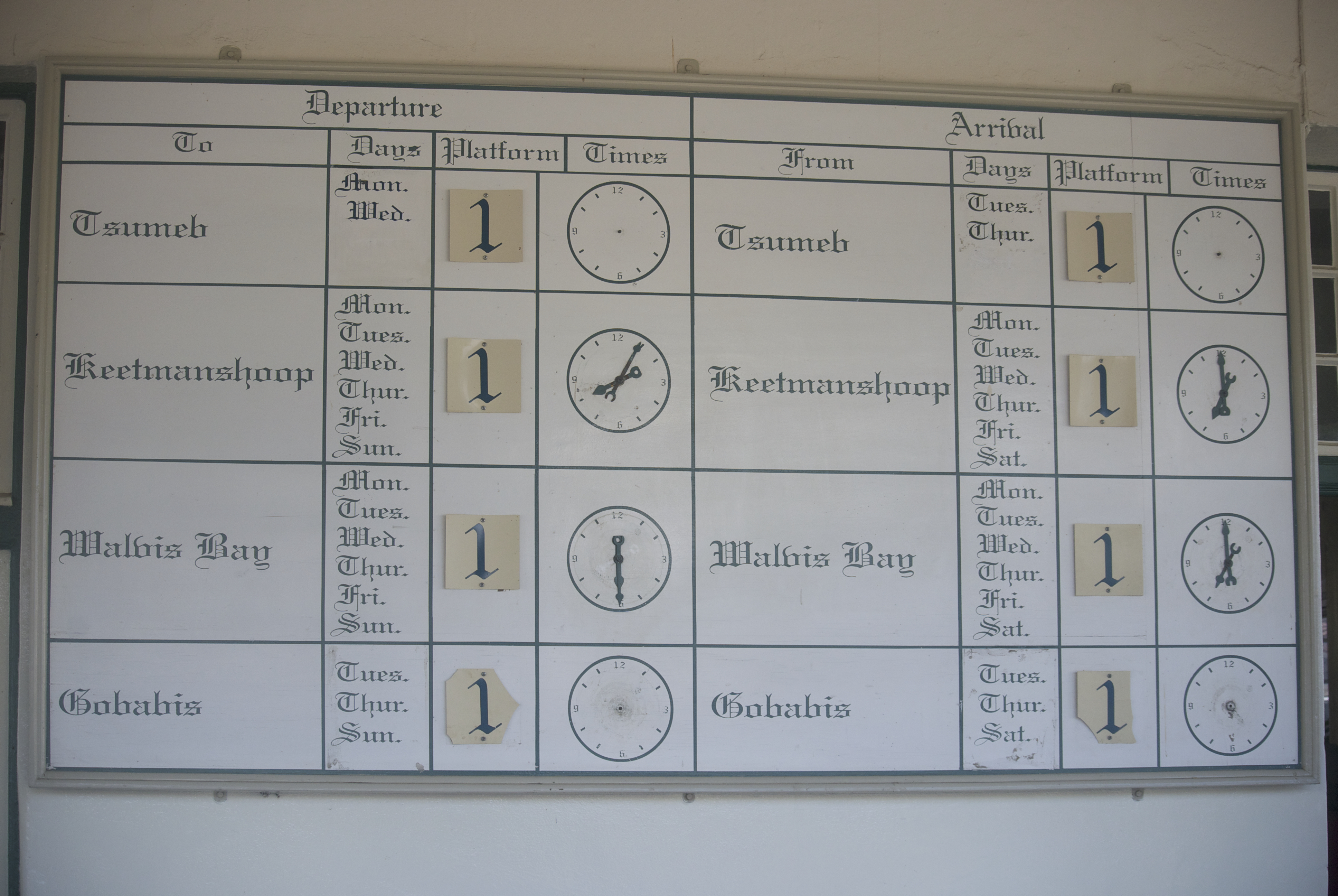 This is an image with the theme "Africa on the Move or Transport" from: Namibia